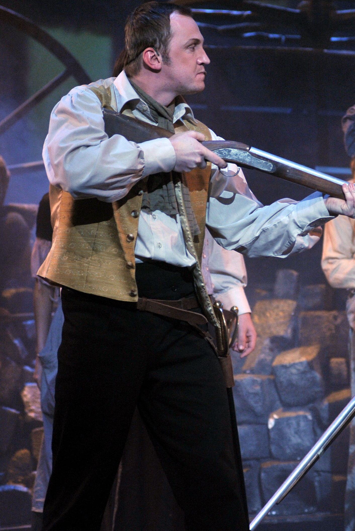 Milan Němec